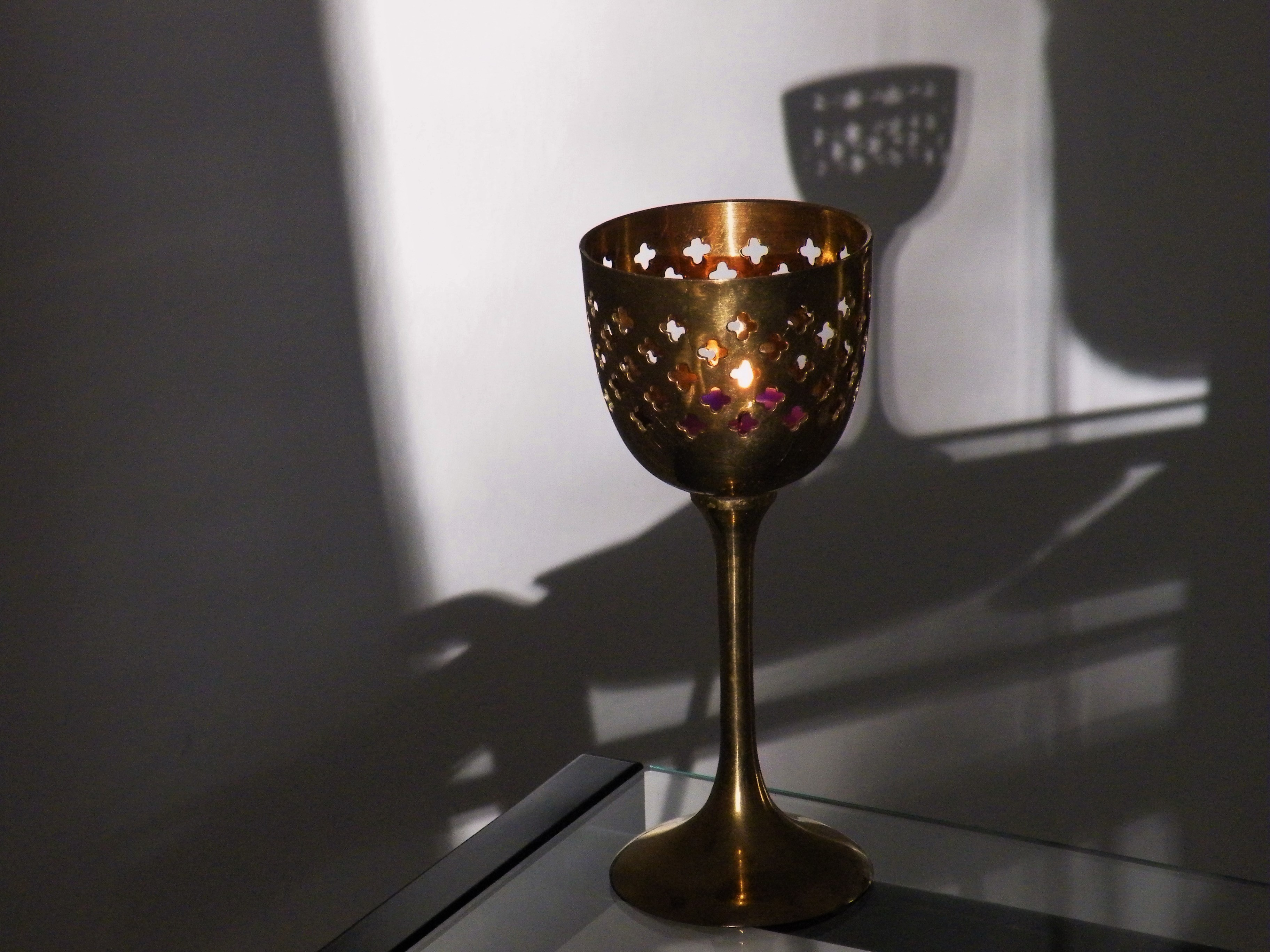 Candleholder with cross symbols.